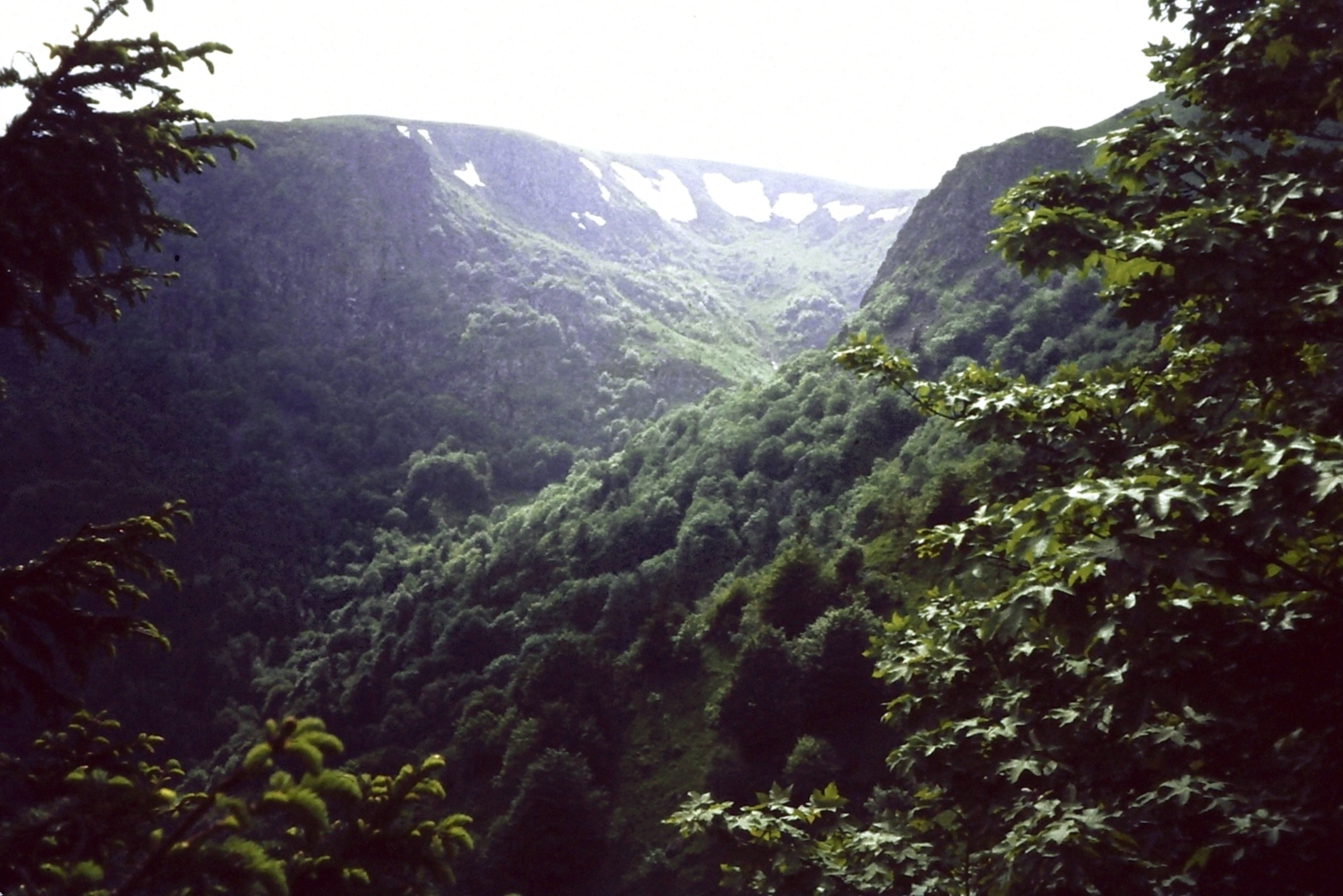 The Wormspel corrie seen from the southwestern slope of the Petit (Little) Hohneck